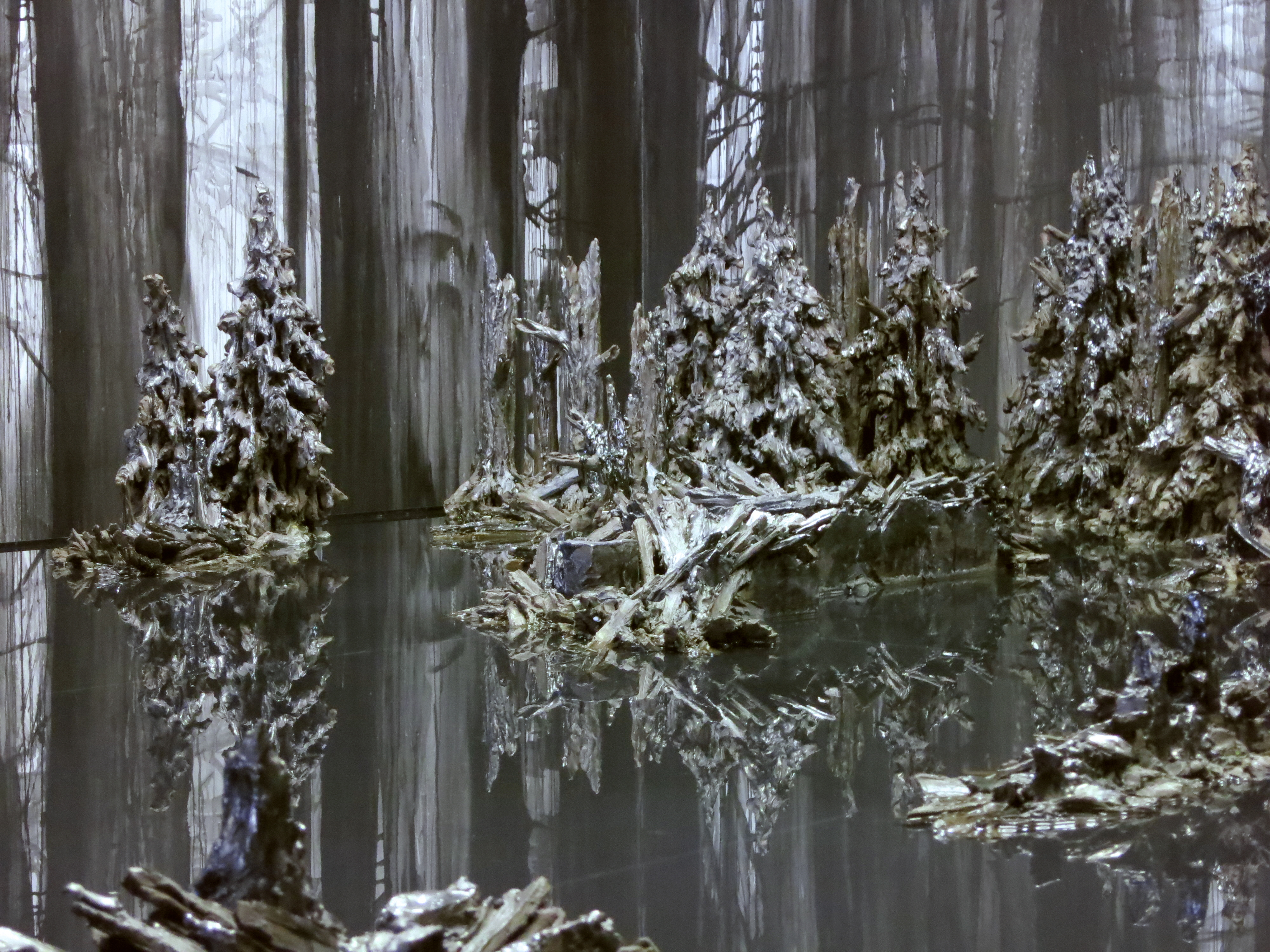 Installation 'Silent Landscape' (2008) by Anne Wenzel, at her solo exhibtion Opaque Palace in TENT Rotterdam, 2014.